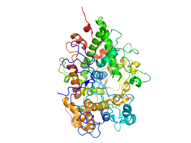 lactoperoxidase